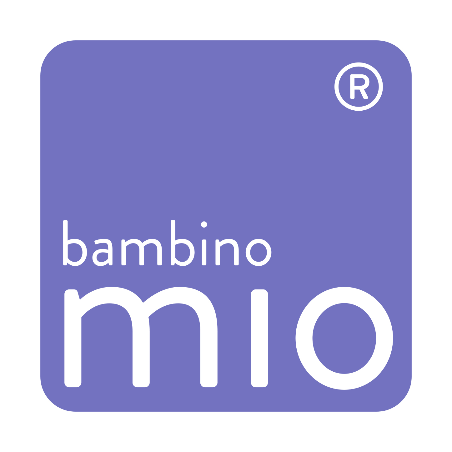 Updated Bambino Mio Logo 2020